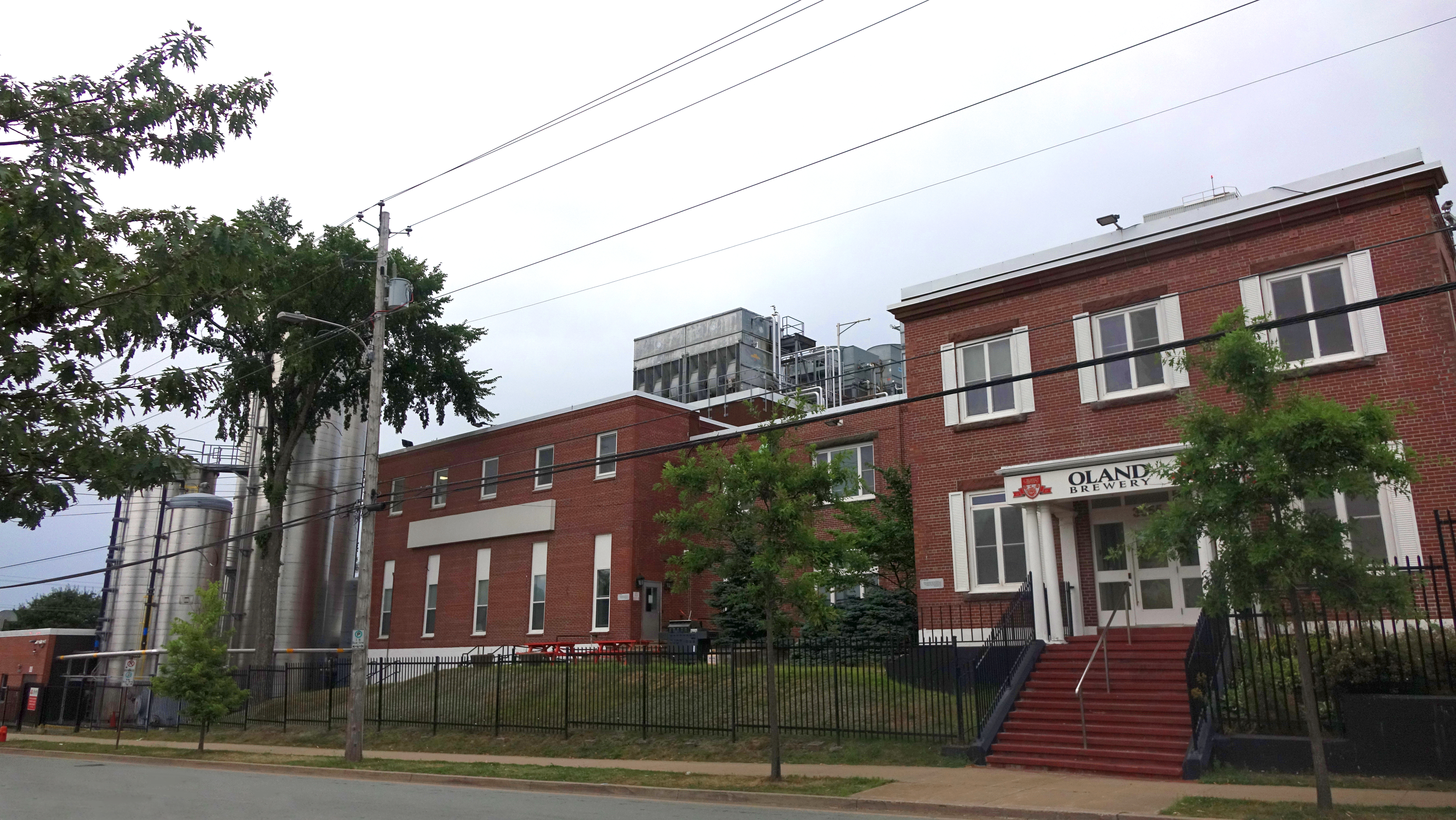 Main entrance of the Oland Brewery at 3055 Agricola Street, Halifax, Nova Scotia, Canada. Photo taken August 26, 2019.